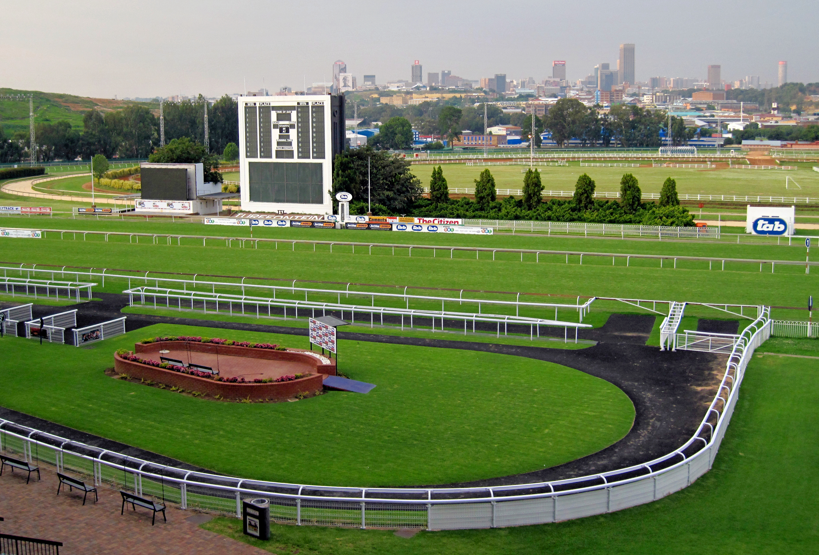 Turffontein Racecourse, a race track for horse racing, in Turffontein South Africa